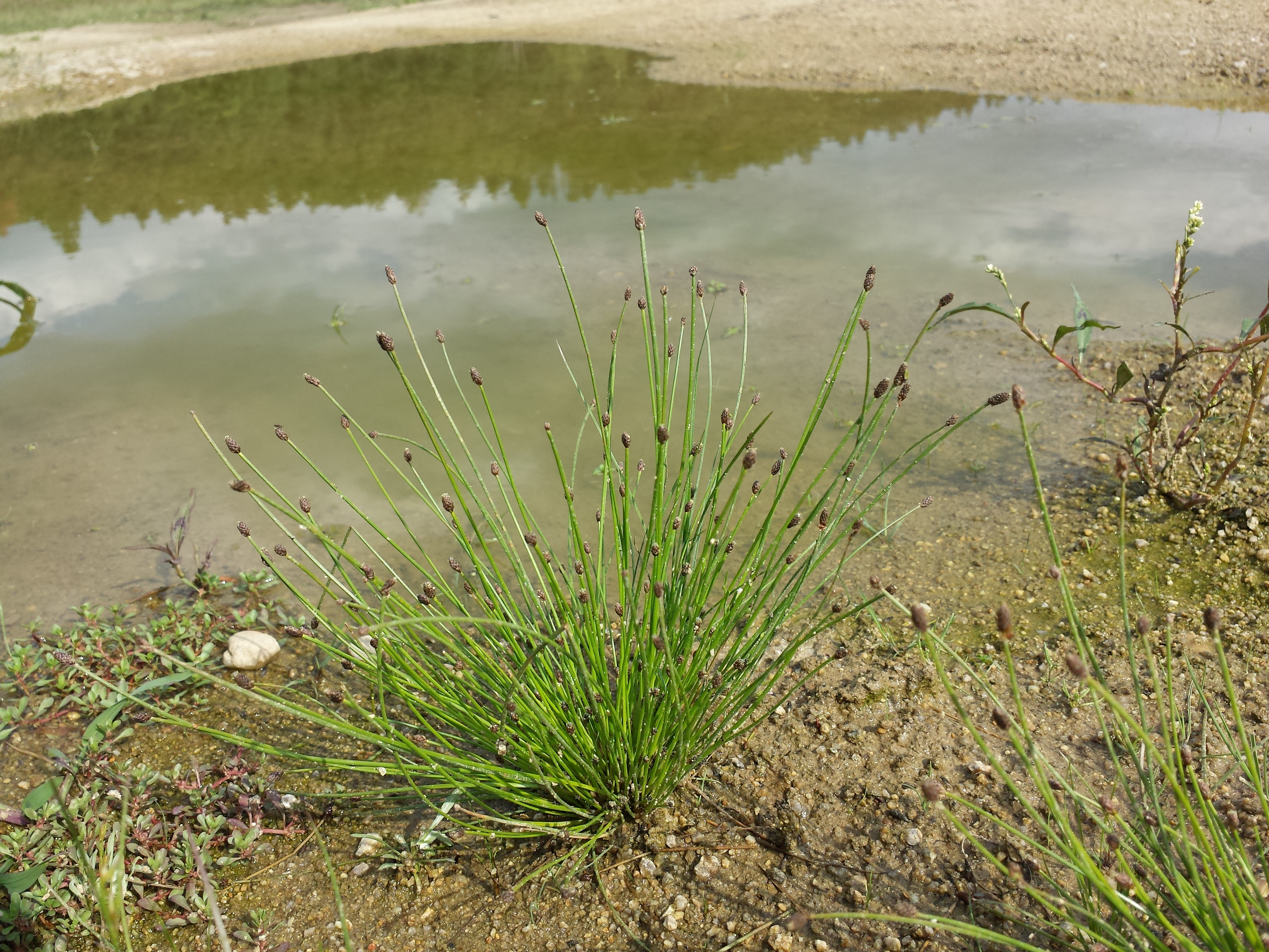 Habitus Taxonym: Eleocharis ovata ss Fischer et al. EfÖLS 2008 ISBN 978-3-85474-187-9 Location: Žárský rybník, Jihočeský kraj, Czech Republic - ca. 500 m a.s.l. Habitat: ground of a pond